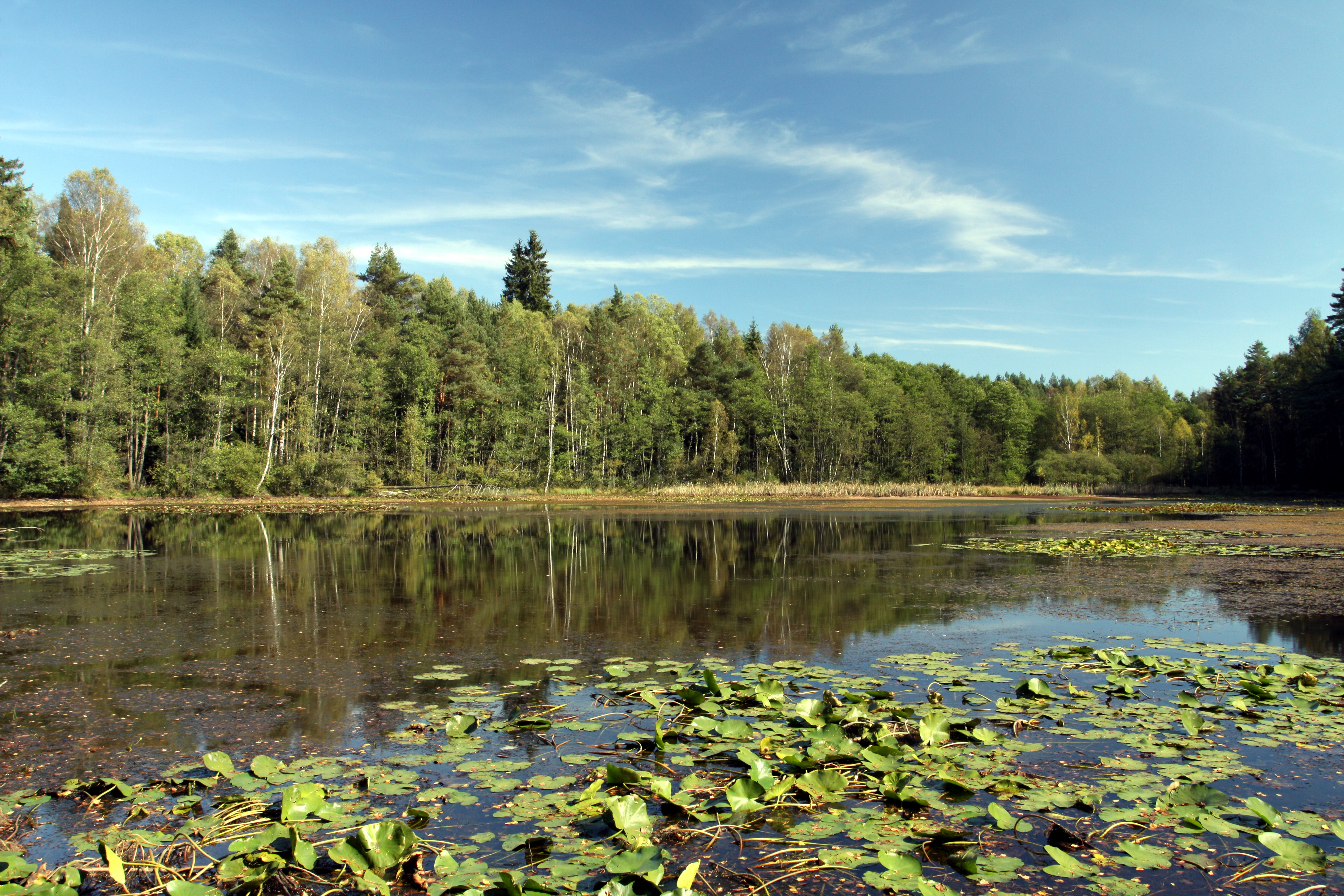 Nature reserve Rybníčky u Podbořánek near Podbořánky village in Rakovník District, Czech Republic